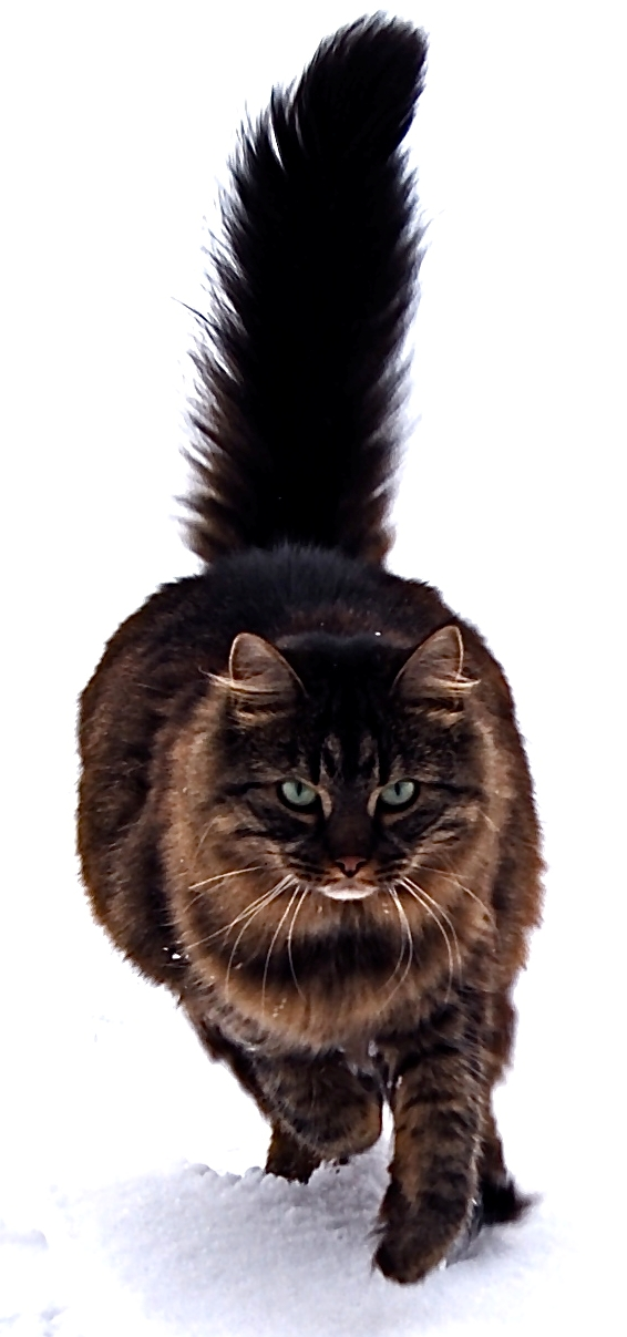 A Maine Coon cat in the snow of Canada.